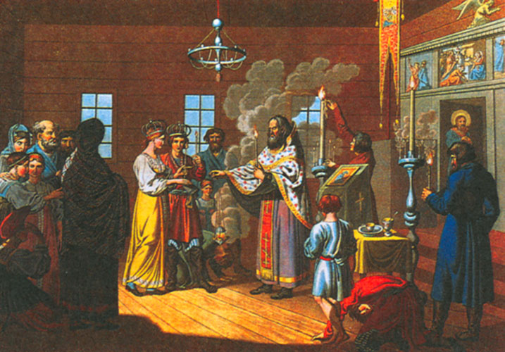 Russian peasant wedding. Engraving by K. Wagner. 1812.